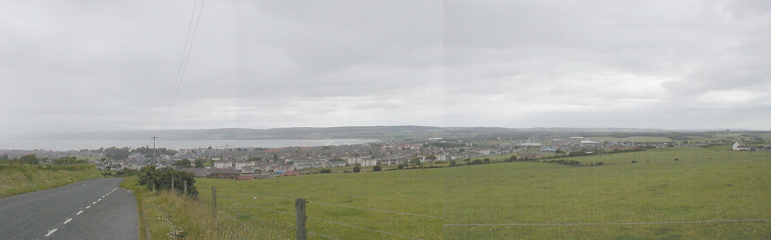 Panoramic view of Stranraer, Scotland, composed from photos taken from Gallowhill, summer 2000, by User:SFC9394 and originally uploaded as Image:Stranraer Scotland Panorama.jpg. Image's internal edges sharpened and gamma increased to 2.0 by User:David Kernow.